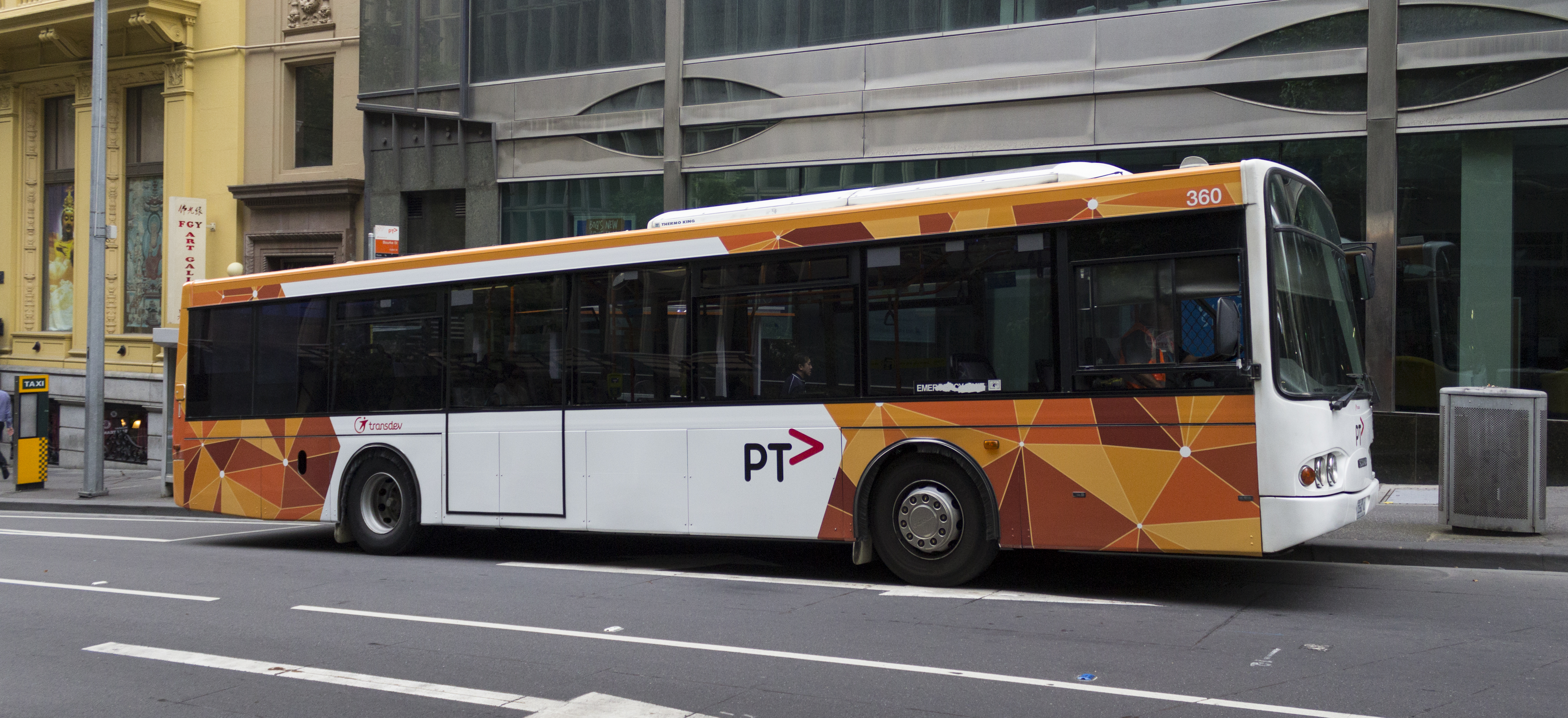 Transdev Melbourne number 360 (0360AO) Volgren "CR222L" bodied Scania L94UB in Public Transport Victoria livery on route 232 in Queen St, December 2013.